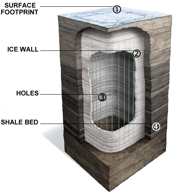 Caption: (1) Surface facilities for the freeze wall include access points to the closed-loop pipe system, monitoring wells and groundwater wells, which will pump out the groundwater from the inside the contained reservoir once the freeze wall is built. (2) A chilled liquid would be circulated through a closed system of pipes causing the water in the surrounding rock to freeze and eventually form a wall of ice. This freeze wall will serve as a barrier to keep groundwater out of the contained reservoir. (3) Shell will drill a maximum of 150 holes spaced about 8 feet apart in order to create the closed-loop pipe system. (4) Up to 2,000 feet beneath the surface, the shale layer is a rock formation containing an organic matter (kerogen). It is this organic matter trapped in the rock that results in oil and gas when gradually heated.